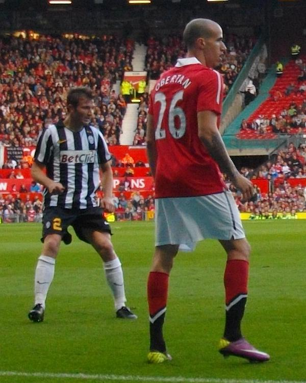 Photo of Marco Motta & Gabriel Obetan taken at Old Trafford on 24 May 2011 duing Gary Neville's testimonial game against Juventus.